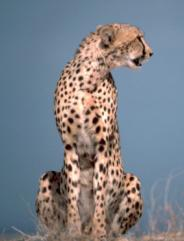 "One Cheetah Sitting."Cheetah (Acinonyx jubatus)WO5672-33F